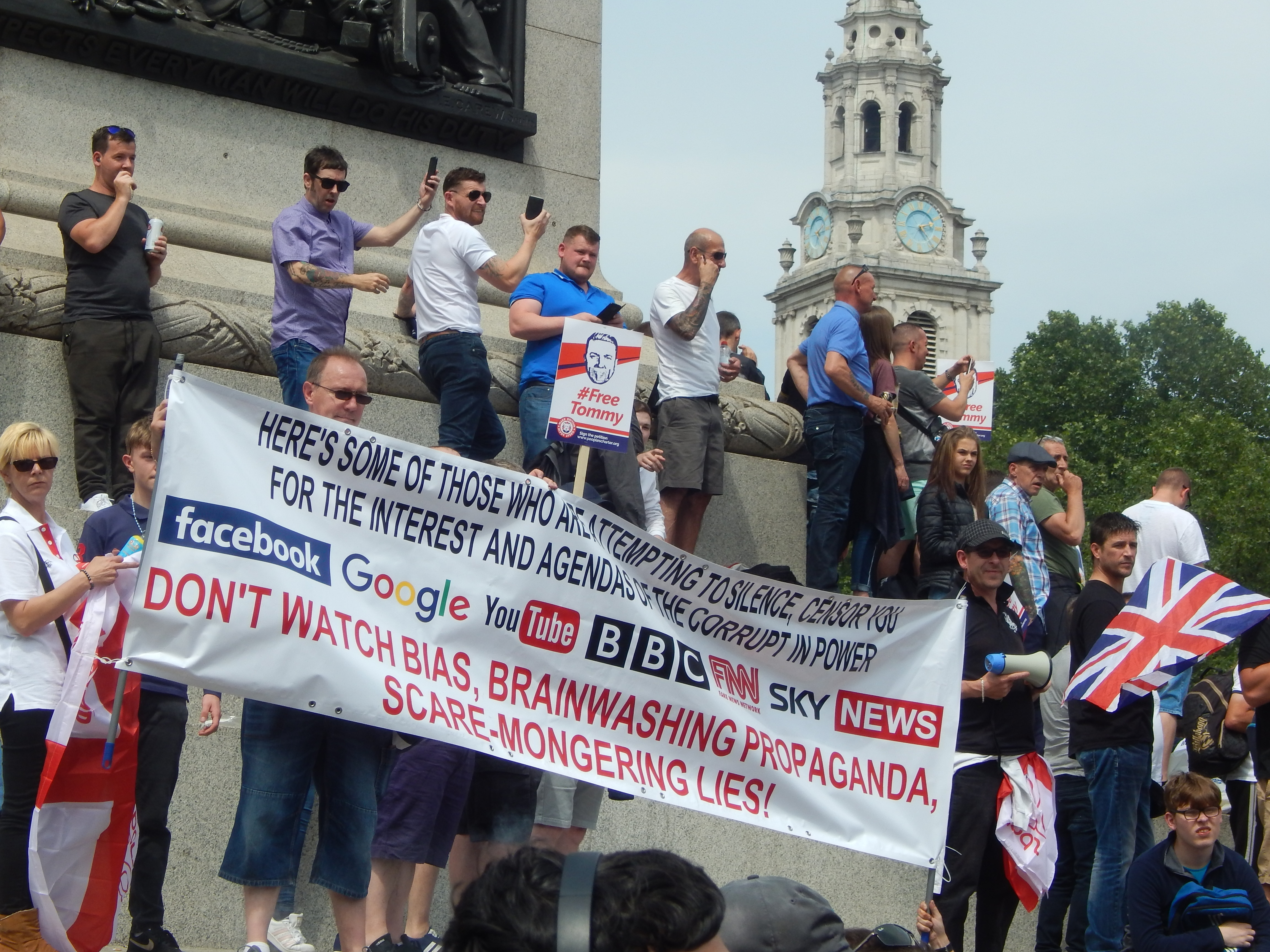 Protest in support of freeing Tommy Robinson at Trafalgar Square